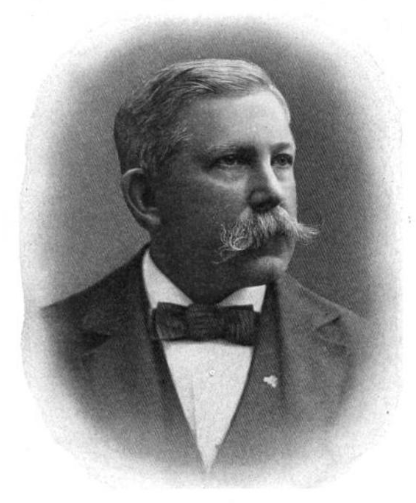 Illustrated History of Nebraska, Volume 2, 1913, page 429